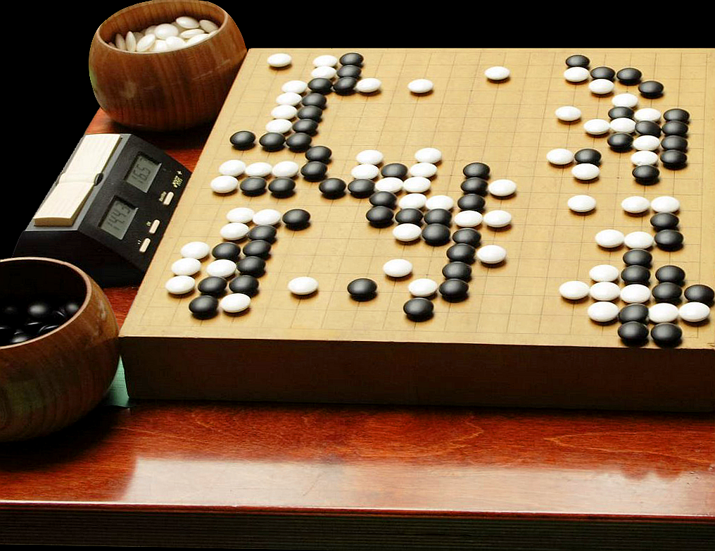 Copy of Image:Go-Equipment-Narrow.png with a black background